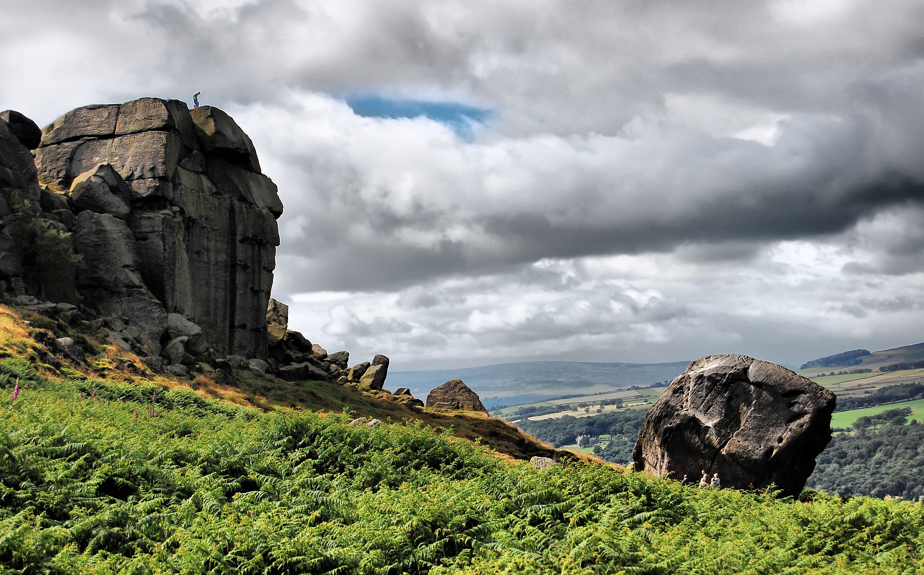 The Cow and Calf rocks above Ilkley. The smaller rock, or "calf", is estimated to weigh about a thousand tonnes and to have fallen away from the rock face at some point in the last 10,000 years. Geologists suggest its movement was arrested from going further downhill by the Wharfedale ice stream, which had by then sunk to the level at which the boulder now rests.